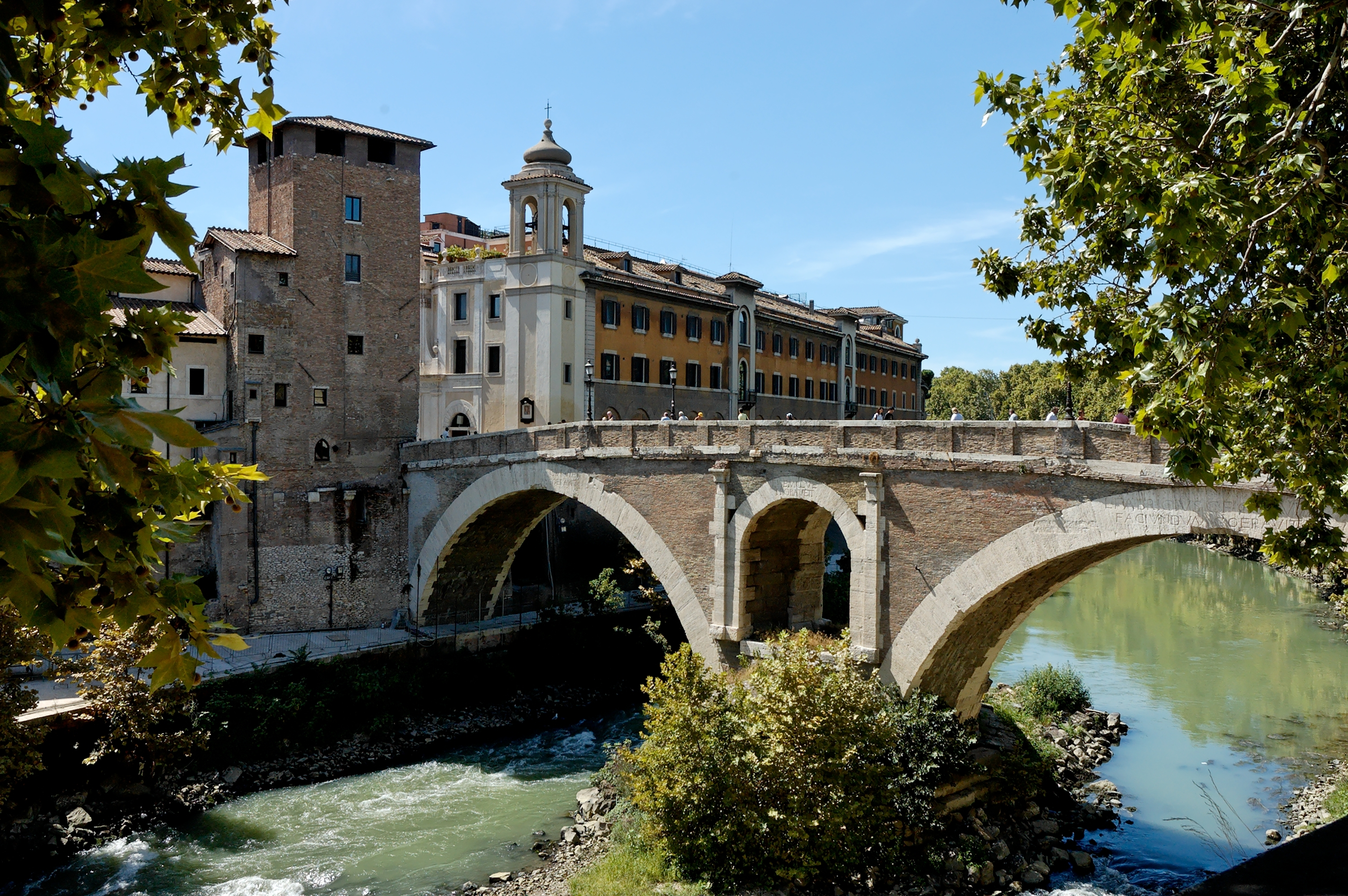 The ponte Fabricio, over the Tiber, and the Isola Tiberina (Rome). View from the Lungotevere Pierleoni.